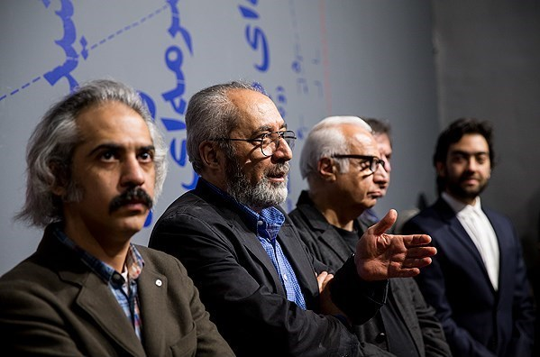 Farhad Fozouni